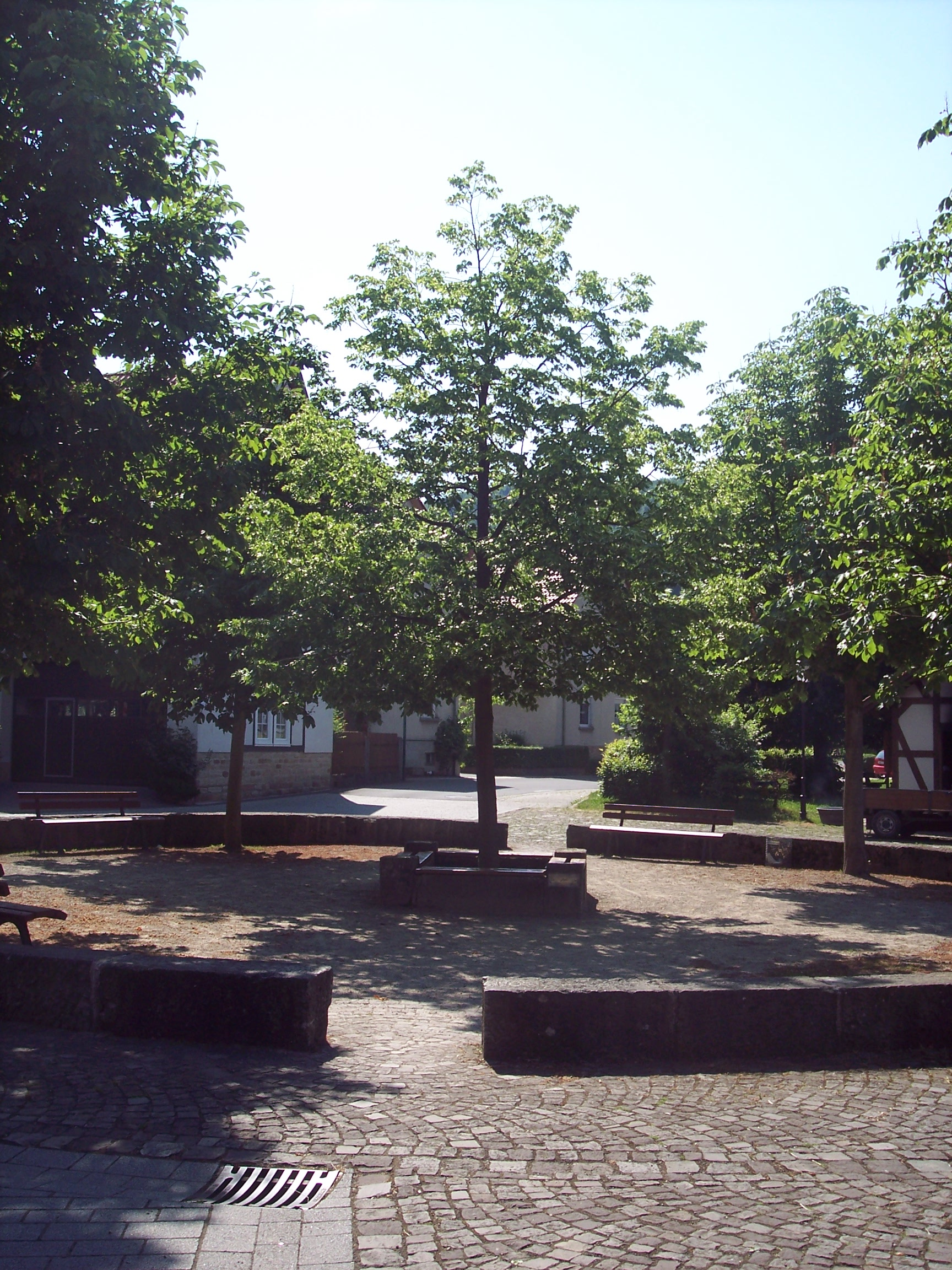 Barnhouse-Linde on the "Anger" of Datterode. The tree was donated by descendants of emigrated citizens of Datterode.